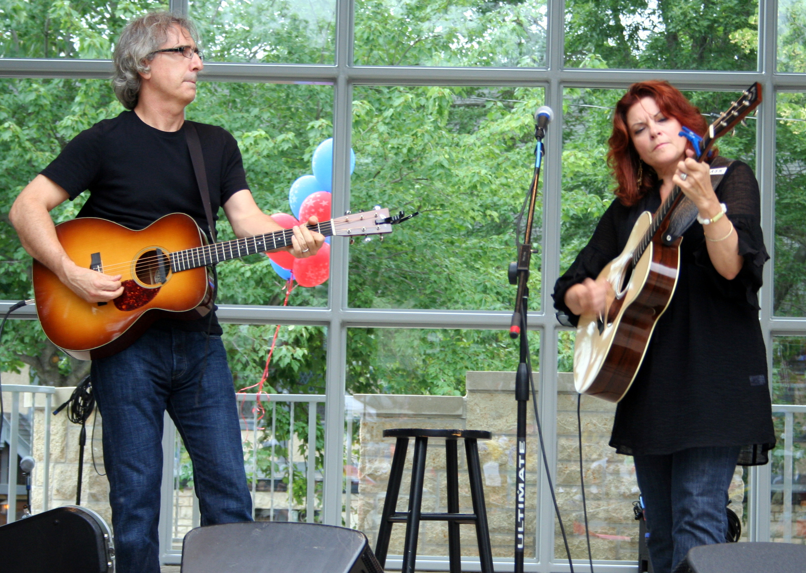 John Leventhal and Rosanne Cash playing guitar at the opening of a new bandshell in Central Park in Red Wing, Minnesota